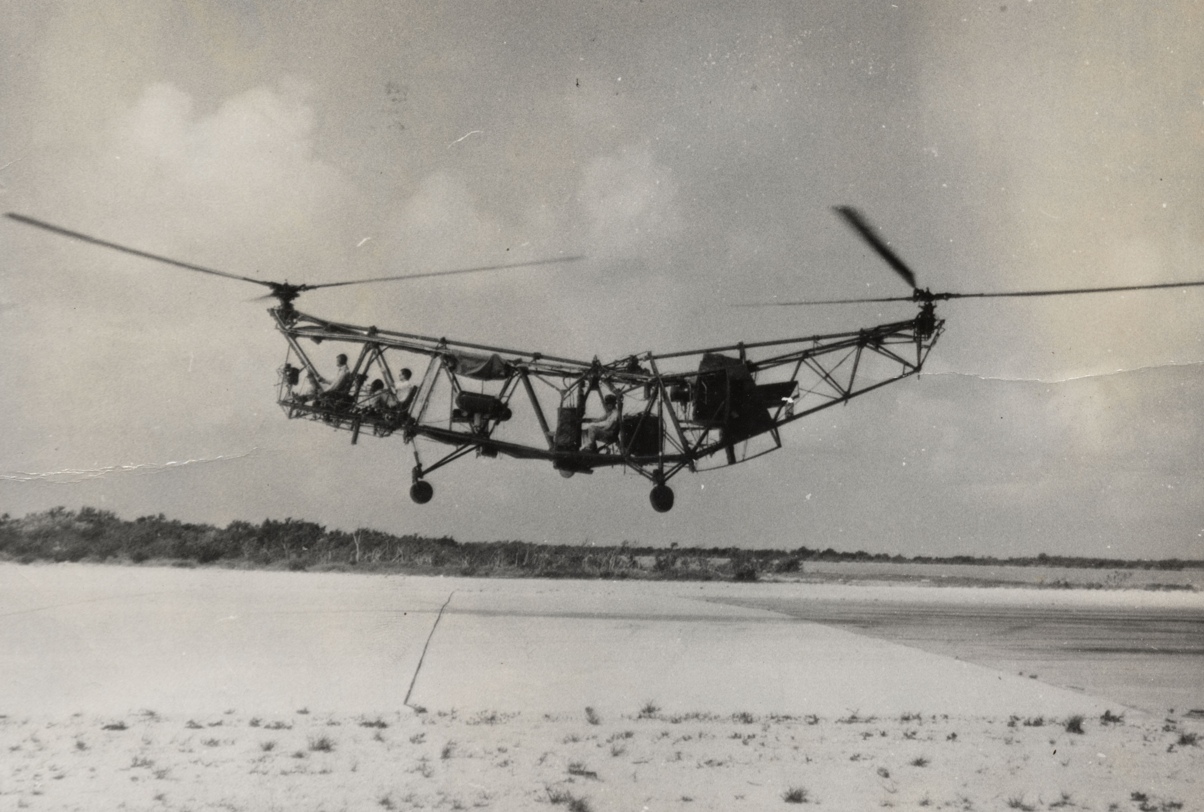 Early Navy helicopter at Naval Air Station Key West. This is a Piasecki HRP-1 "Flying Banana" rescue helicopter, which was a frame only and had no skin. From the Ida Woodward Barron Collection